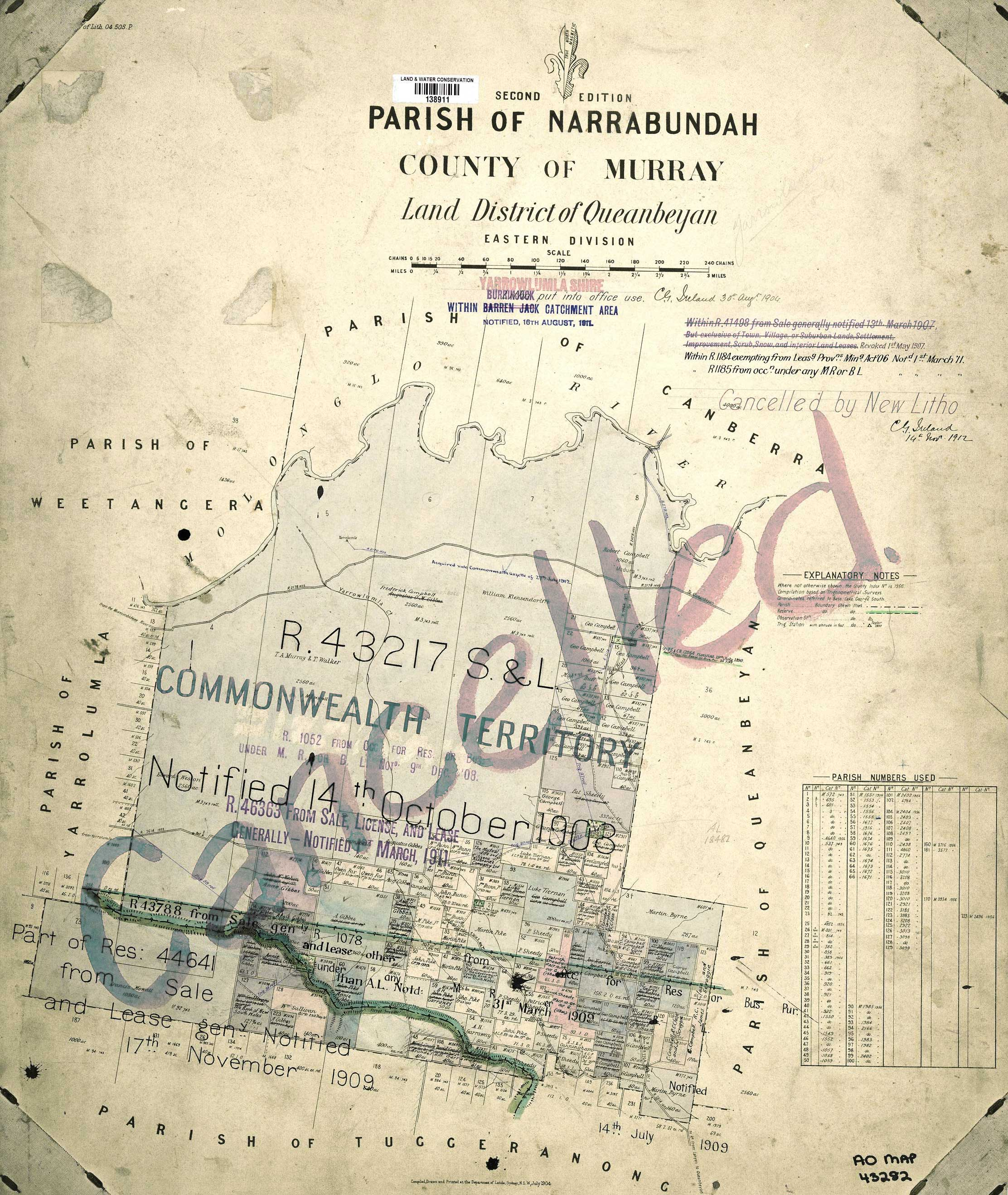 Map of the former parish of Narrabundah, County of Murray, Land District of Queanbeyan, Eastern Division, New South Wales. The parish includes what is now South Canberra and Woden, including Australia's parliament house. Molonglo River marked at the north of this map is now Lake Burley Griffin. Mount Taylor is marked on the southern edge, and Mount Mugga Mugga near the eastern edge. Small amount of editing done to dull the red colour of the "cancelled" writing.